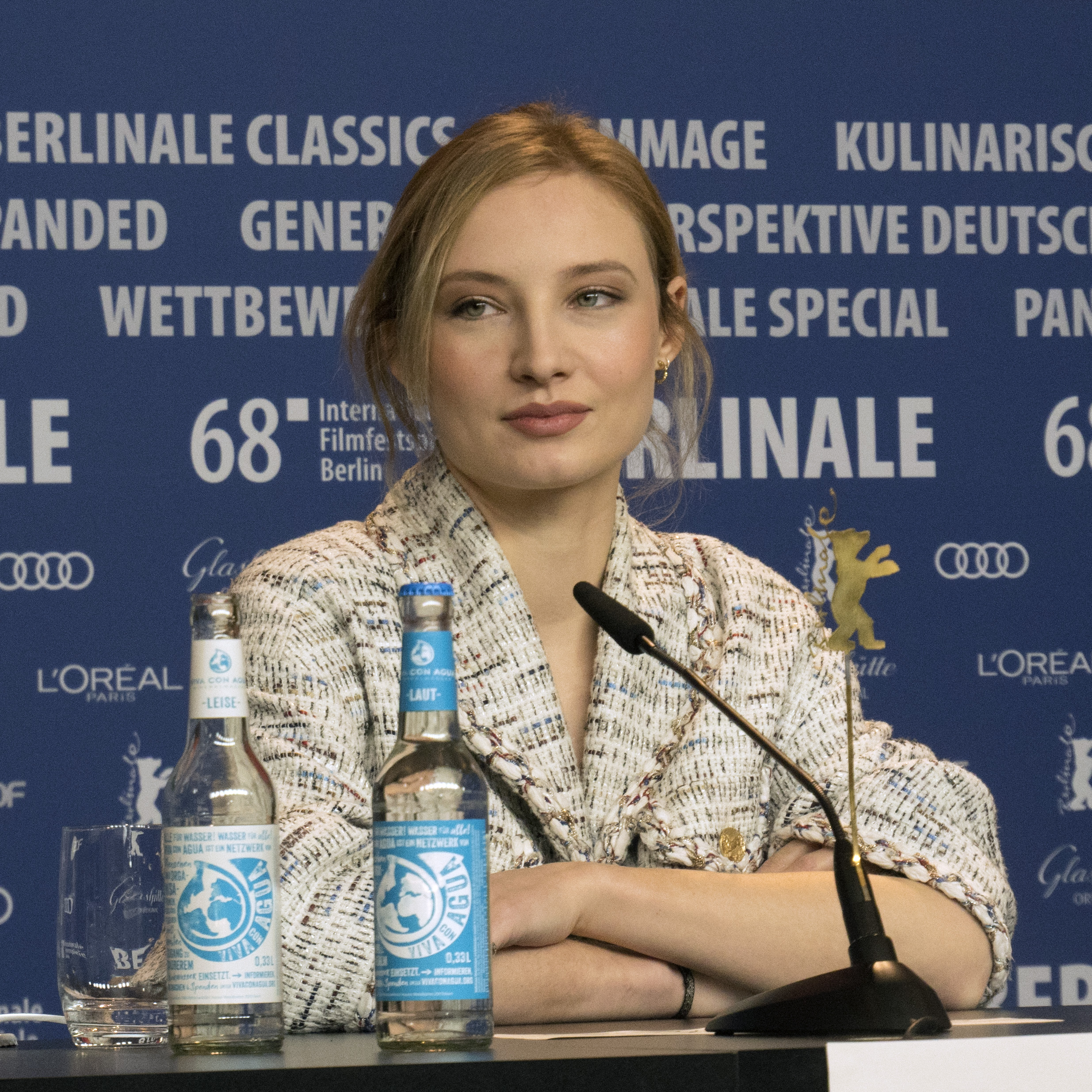 Julia Roy at the press conference of Eva at Berlinale 2018